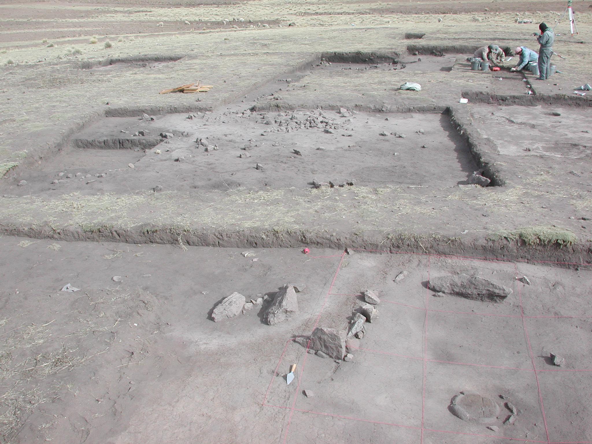 Jiskairumoko during excavations of 2002.